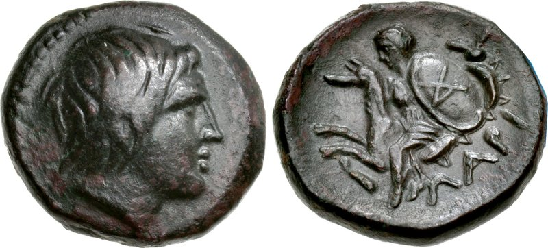 Larissa Kremaste. 4th century BC. Æ Trichalkon (18mm, 5.81 g). Bare head of Achilles to r., border of dots / ΛΑΡΙ from the bottom, towards the r., up and circular, Thetis, wearing long chiton and holding shield of Achilles with his AX monogram on it, seated l. on hippocamp; below, in front of her feet, dolphin to r. and downwards.